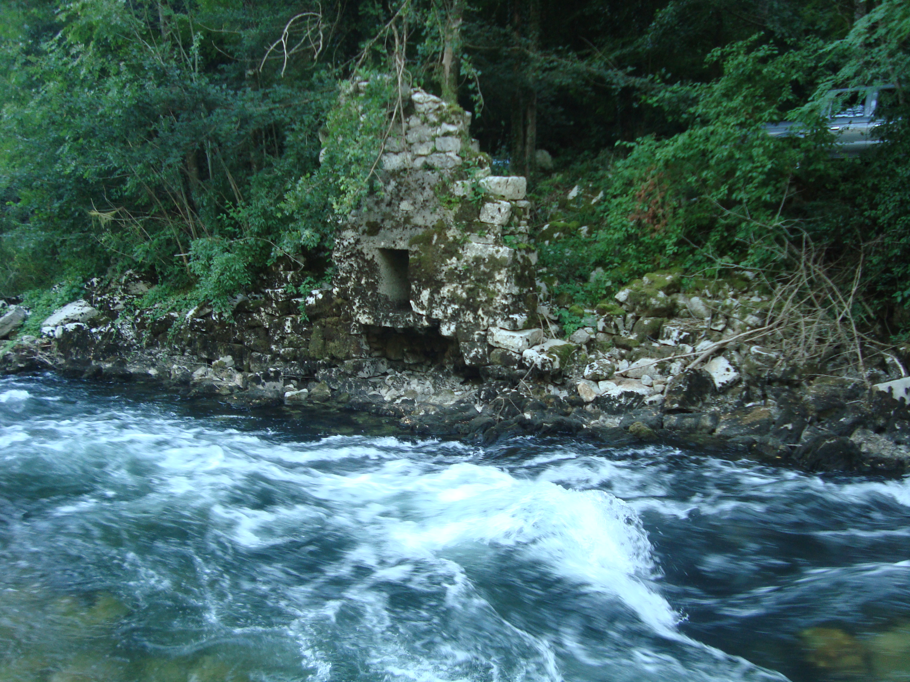 ostaci mlina